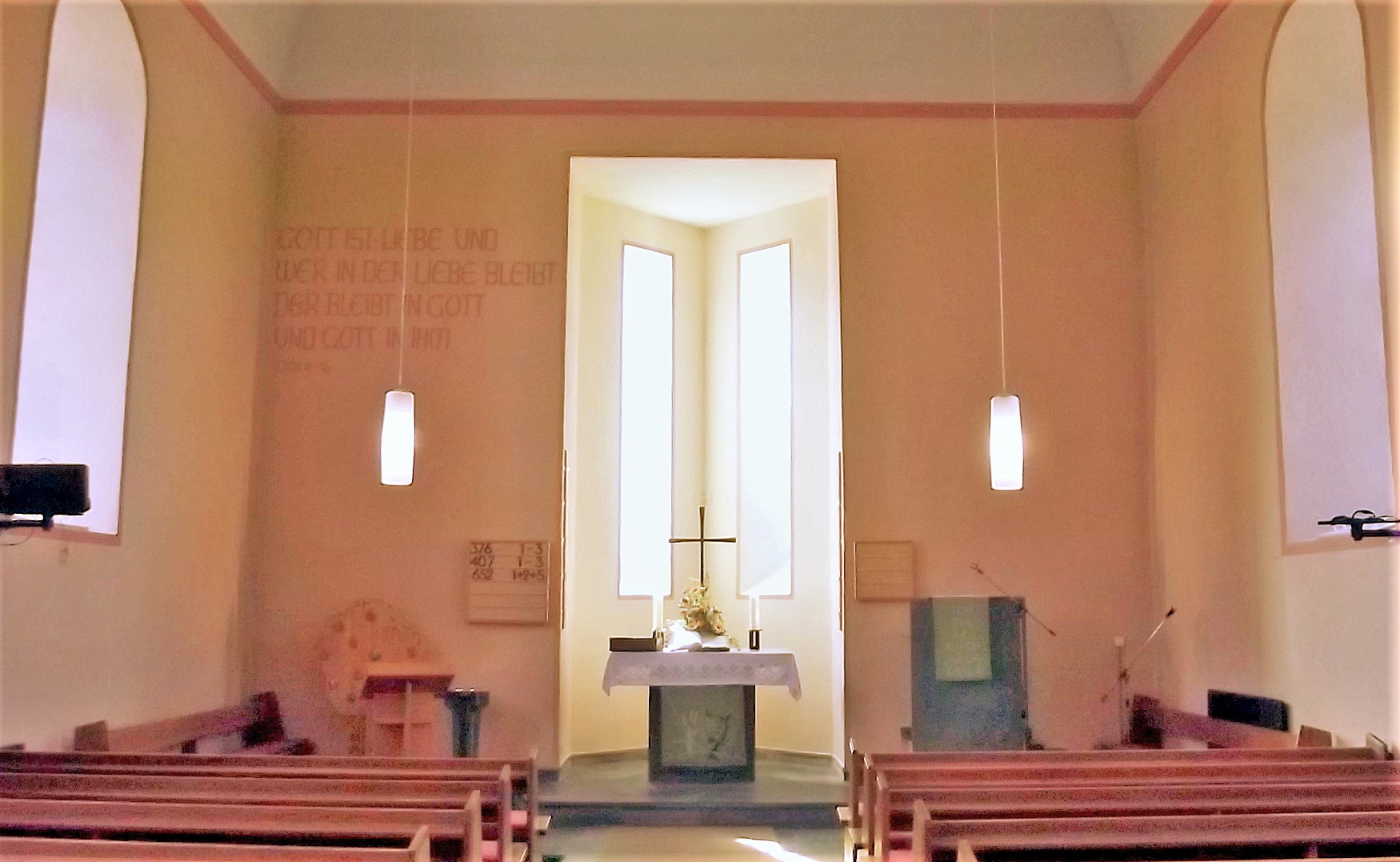 Interior of the protestant church in Nohfelden, Saarland, Germany